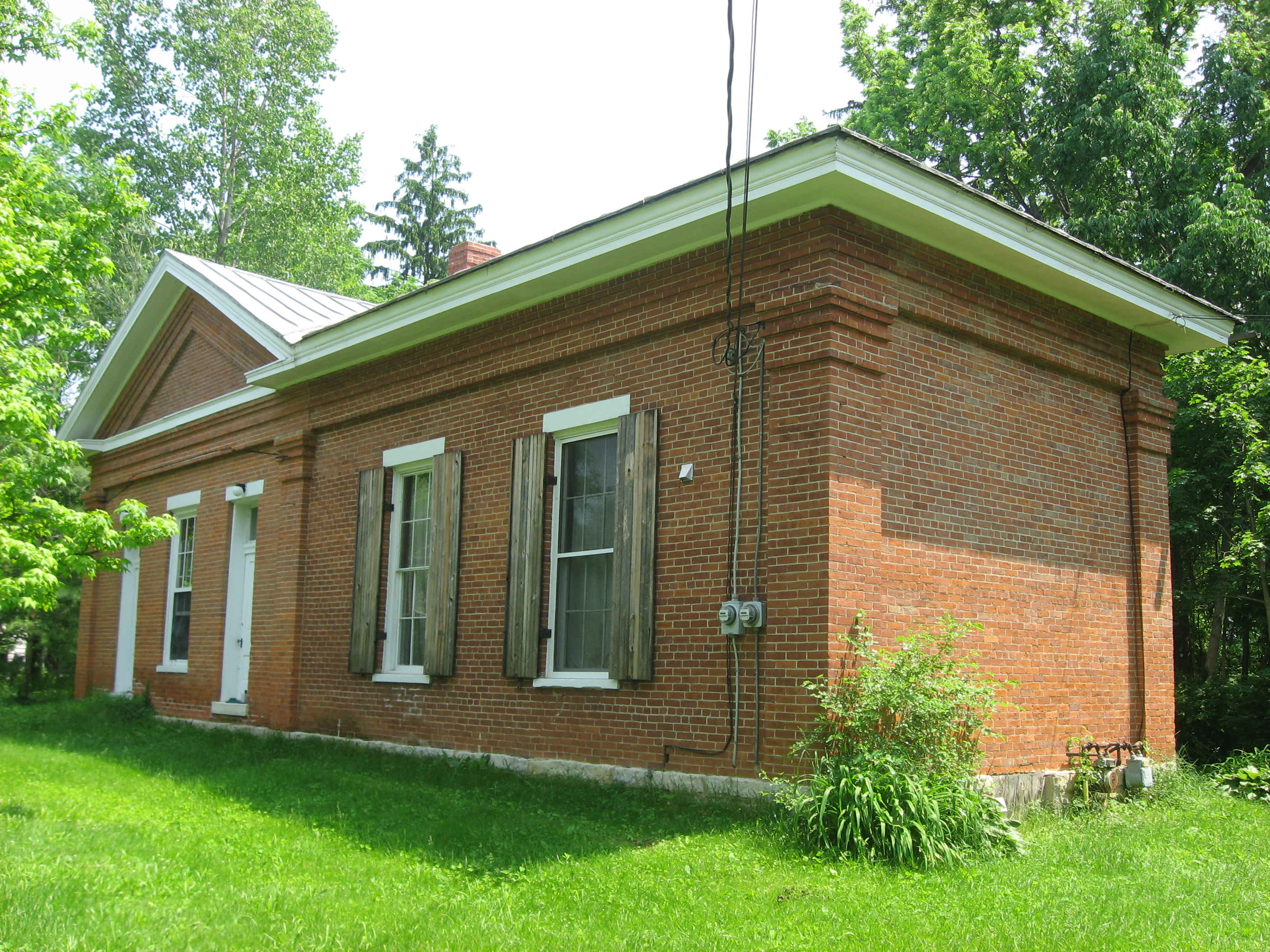 Front and western side of the South School, located at 909 S. High Street in Yellow Springs, Ohio, United States. Built in 1856, it is listed on the National Register of Historic Places, and it is part of a Register-listed historic district, the Yellow Springs Historic District.